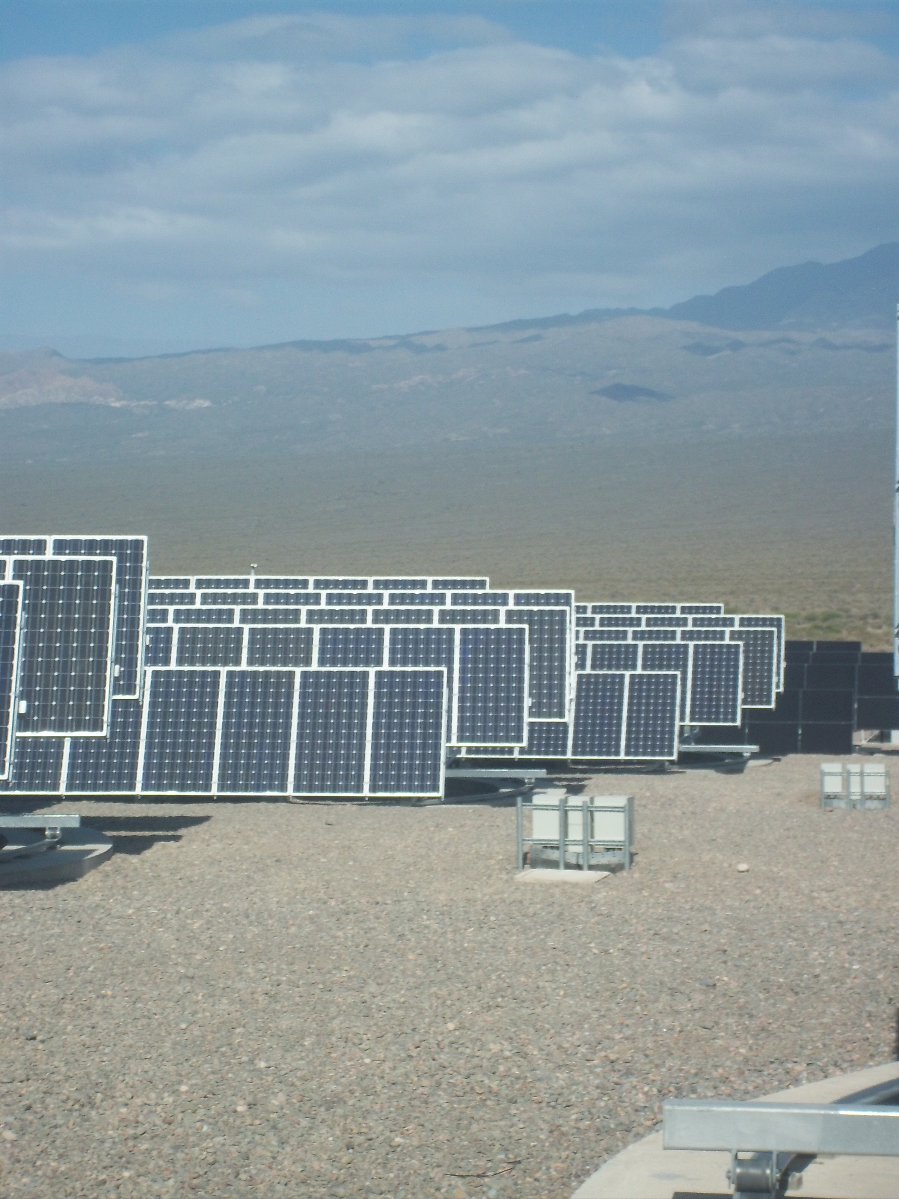 Photovoltaic power generation plant, San Juan I, in Ullum department, San Juan Province, Argentina.